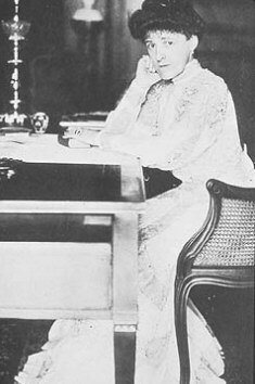 Photo: Edith Wharton, 1915 License: Public domain, Copyright expired